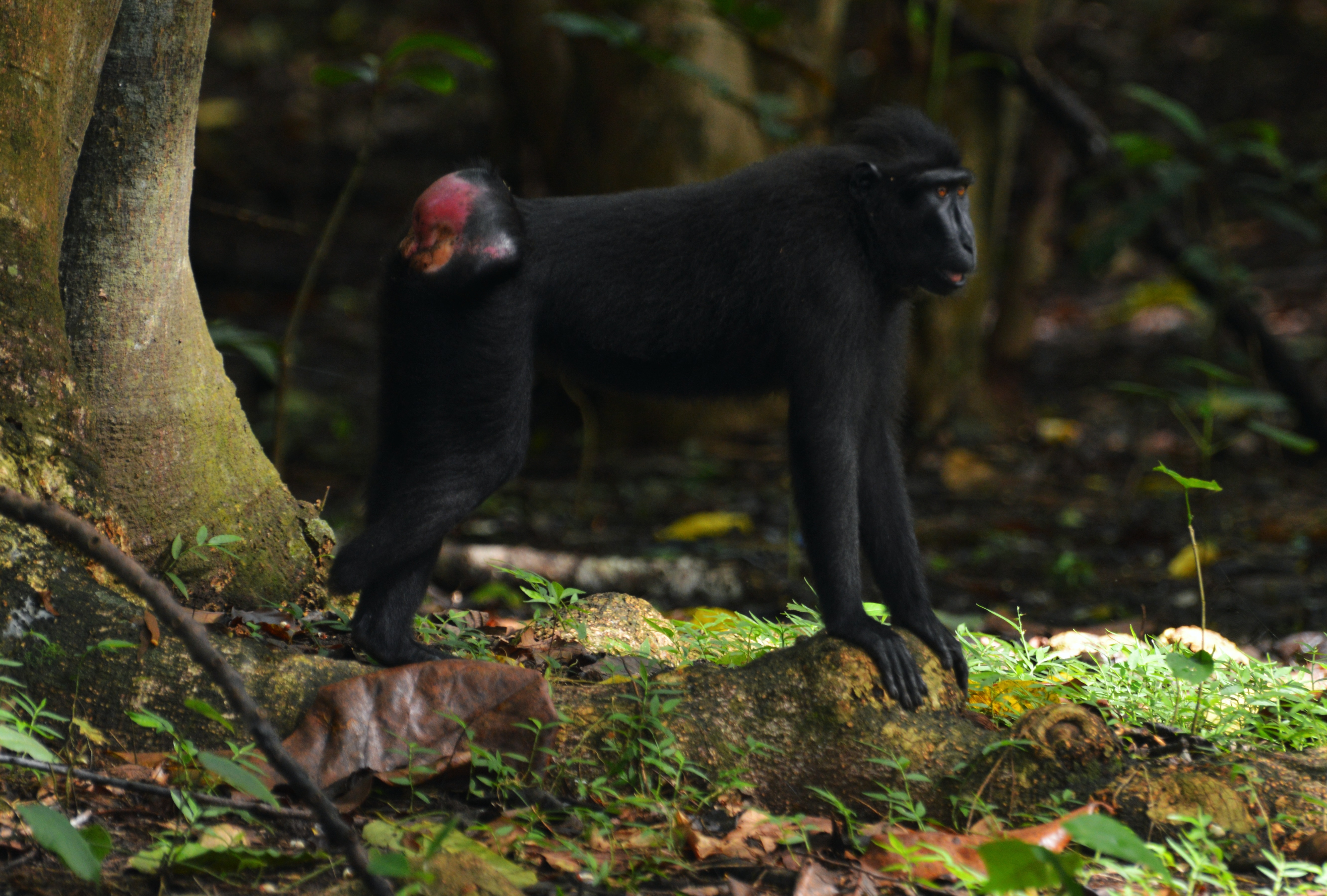 Macaca nigra, has a local name Yaki. Yaki is often hunted with one intent to consume. One of Yaki Female who had to lose her right leg was a mesh.